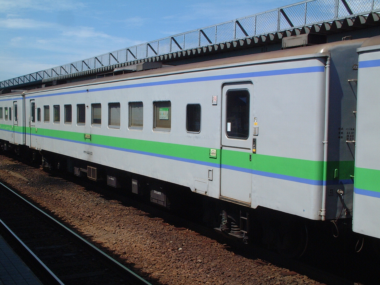 JR Hokkaido DMU car KiSaHa 144-101 at Ishikari-Tōbetsu Station on the Sassho Line